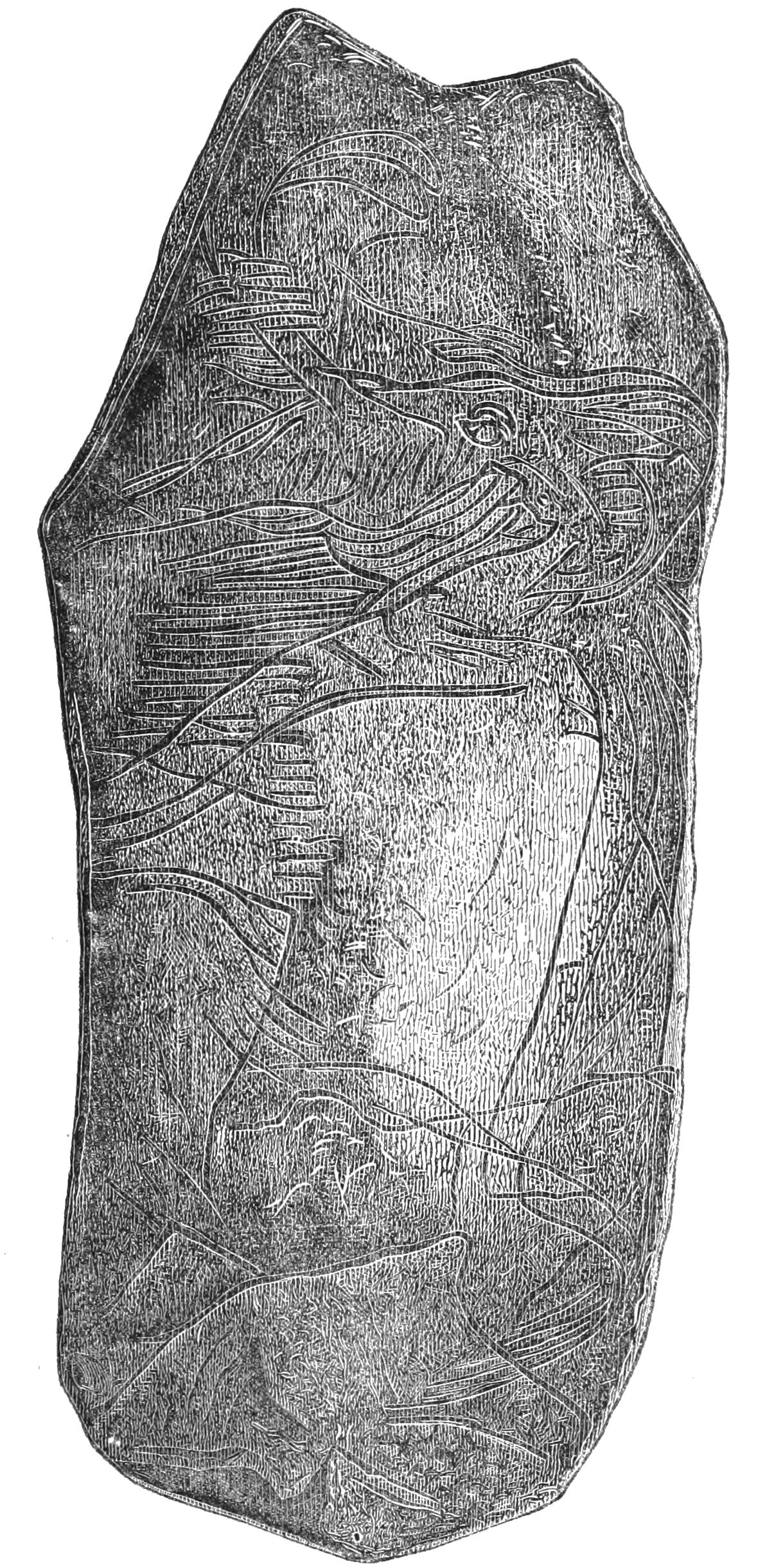 Ivory fossil